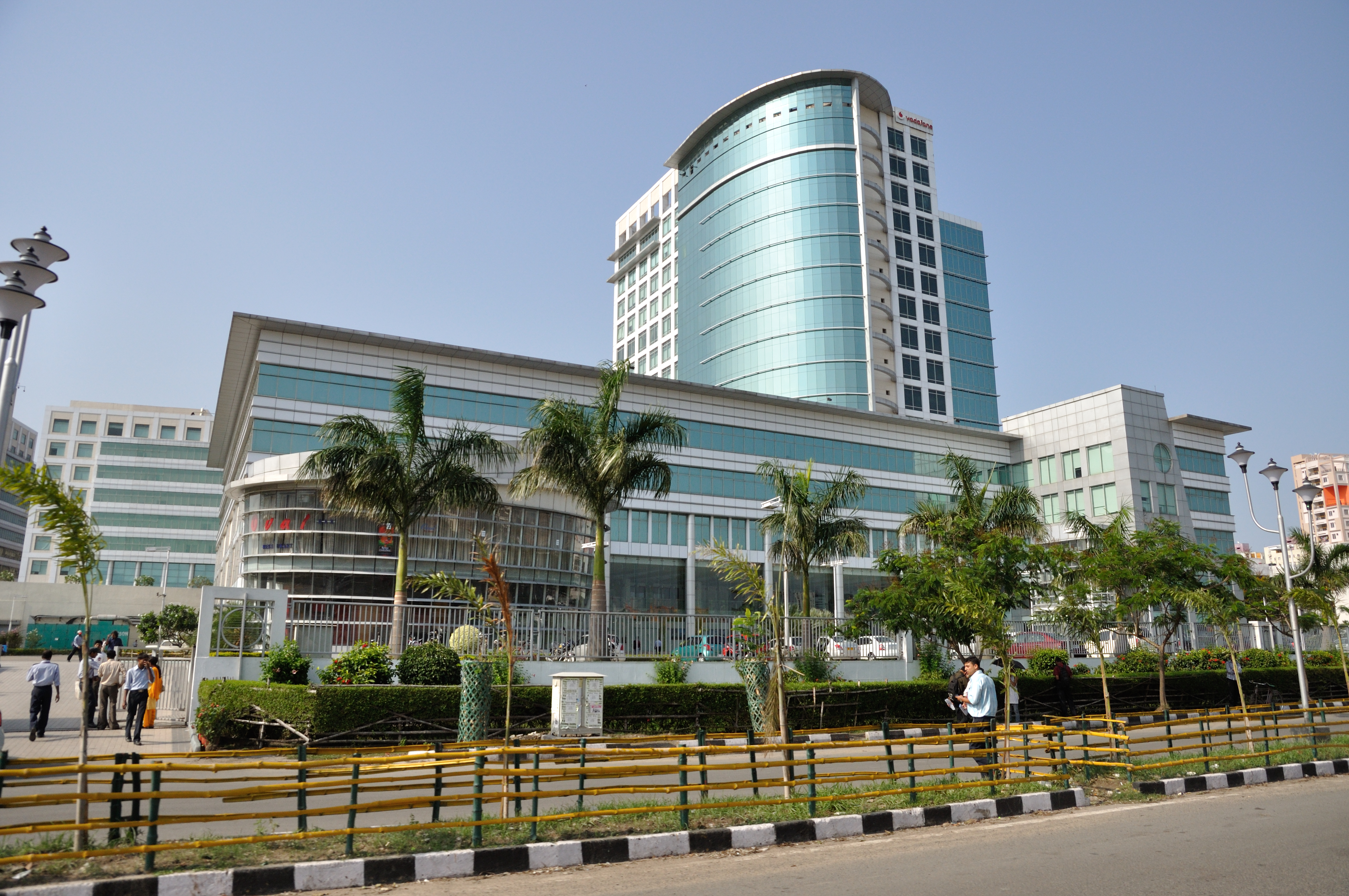 Rajarhat, Norh 24 Parganas, West Bengal.